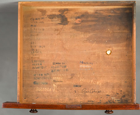 Inside drawer of Senate chamber desk XXIV occupied by Barack Obama during his time in the U.S. Senate. Note signature inside the lower half of the drawer.